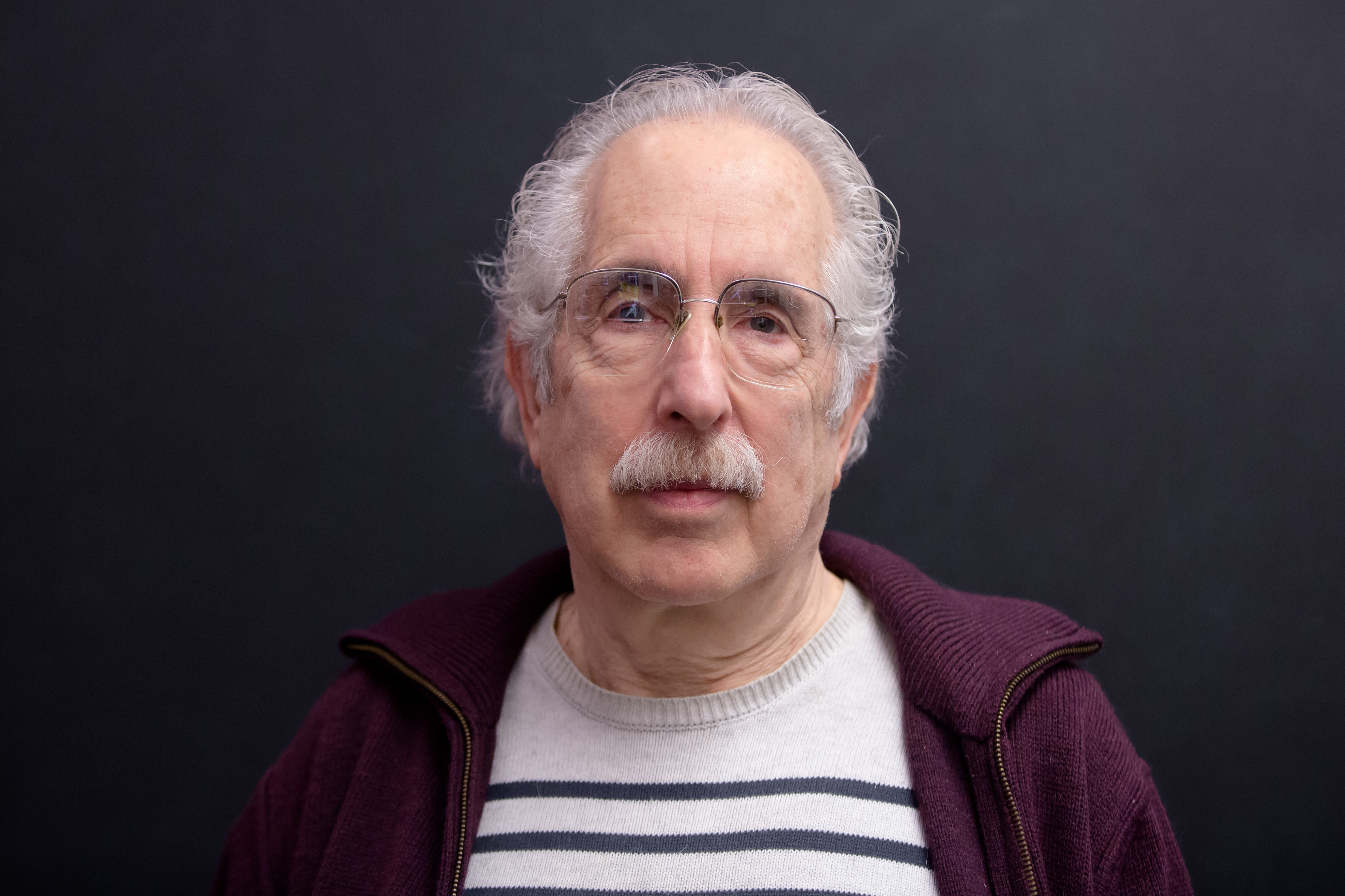 Mark Rappaport at Vienna International Film Festival 2015 (Metro-Kino, Vienna, Austria).